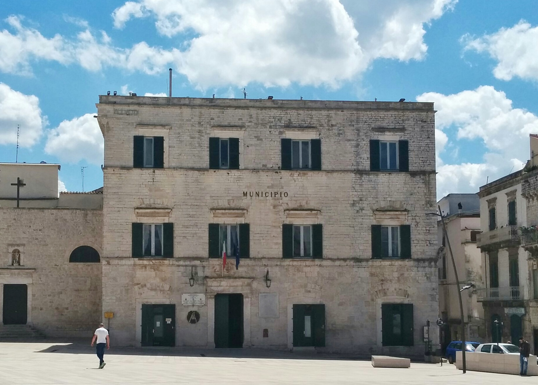 Ruvo's City Hall, Avitaja Palace